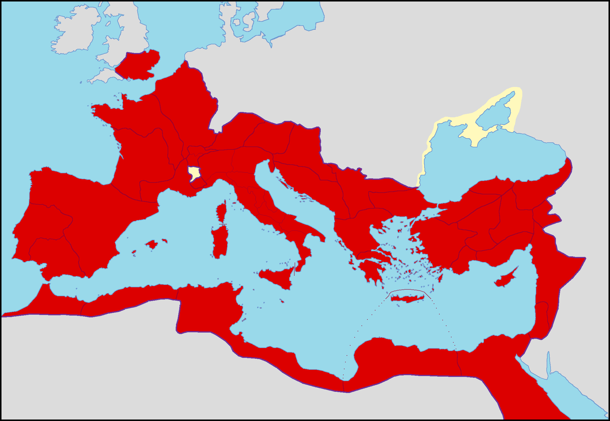 Map of the Roman Empire in 54 AD